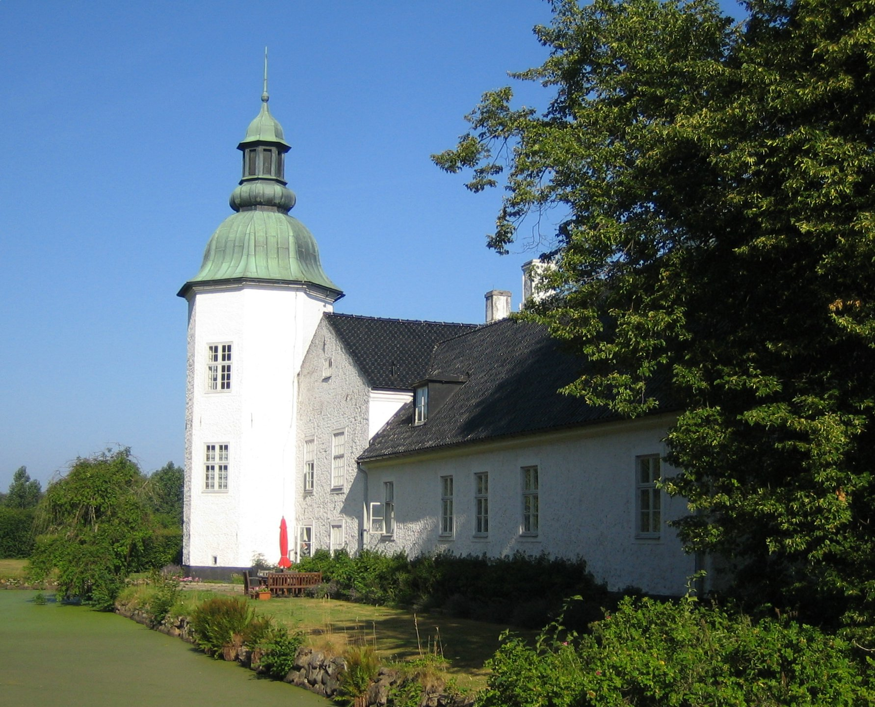 Picture of Osbyholm castle in Scania, Sweden.